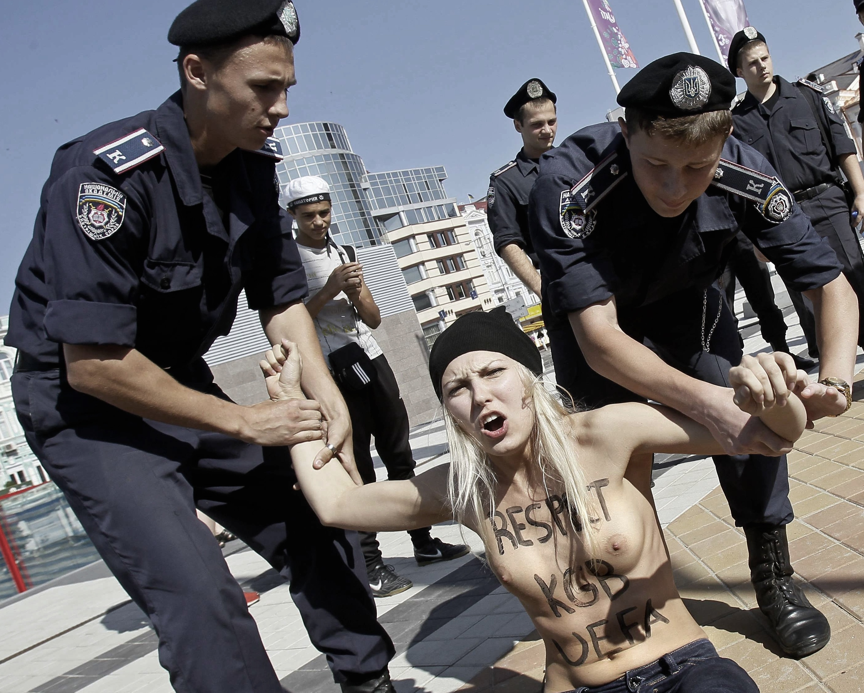 Zhdanova arrested as she protests against the plans of Belarus' President Alexander Lukashenko to attend the Euro 2012 final soccer match, in front of the Olympic stadium in Kiev July 1, 2012.